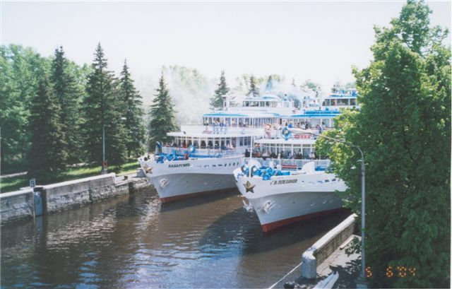 Canal locks past the dam forming Uglich Reservoir on the Volga, in Uglich, Russia.